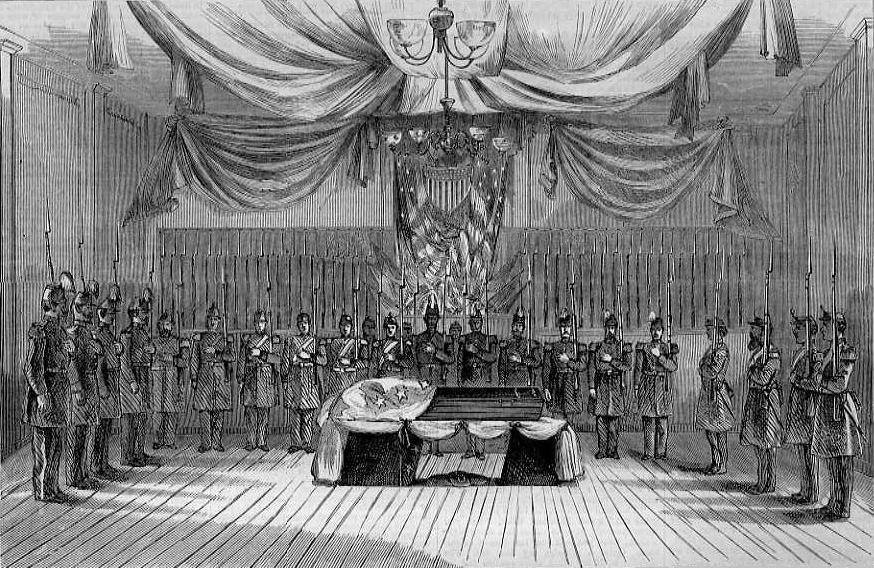 Funeral of the Late General Canby -- the Body Lying in State, a wood engraving (after a photograph by Buchtel & Stolte, Portland, Oregon) published in Harper's Weekly, May 3, 1873.